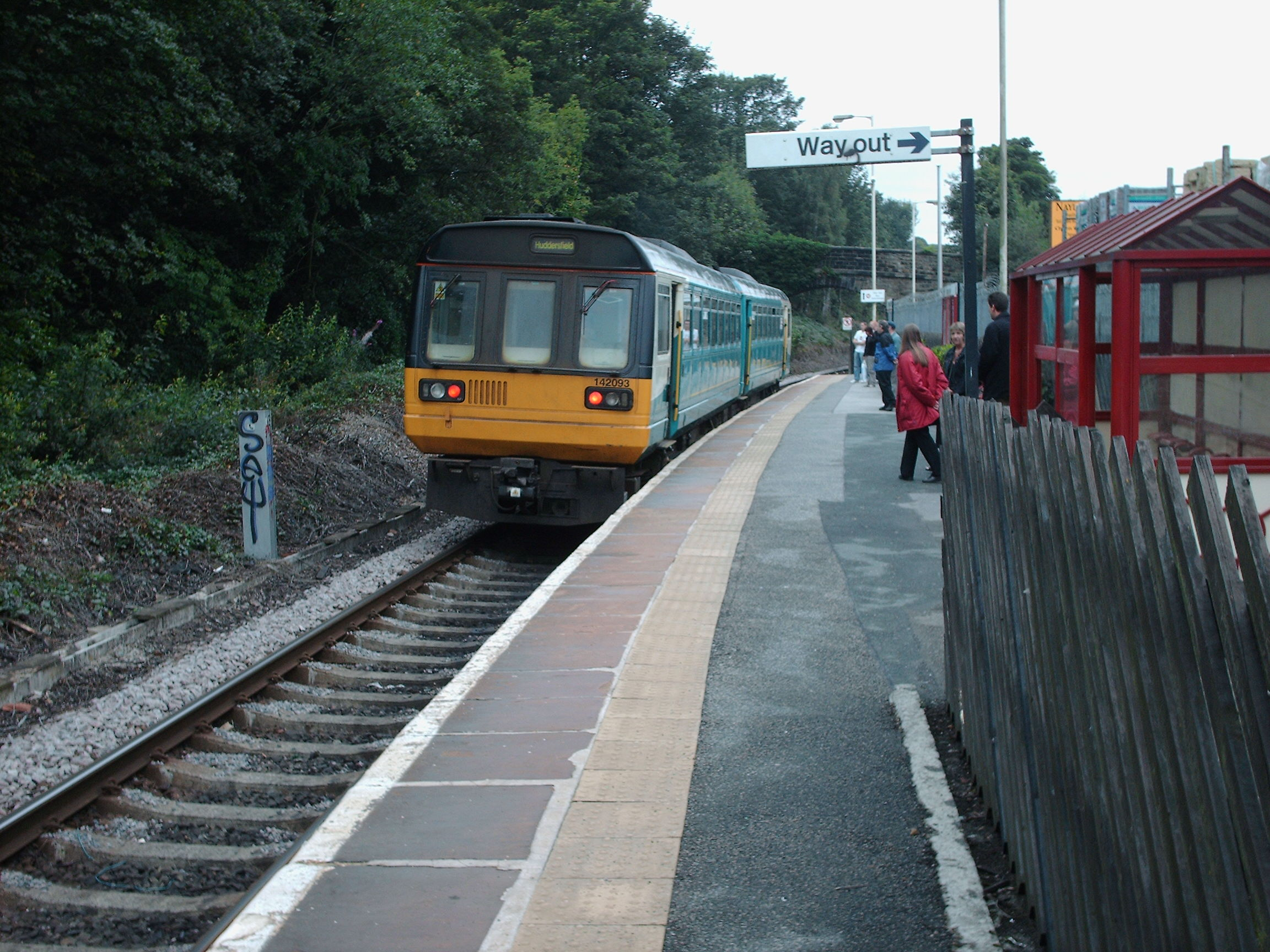 Denby Dale railway station, West Yorkshire, England. 142093 arriving.